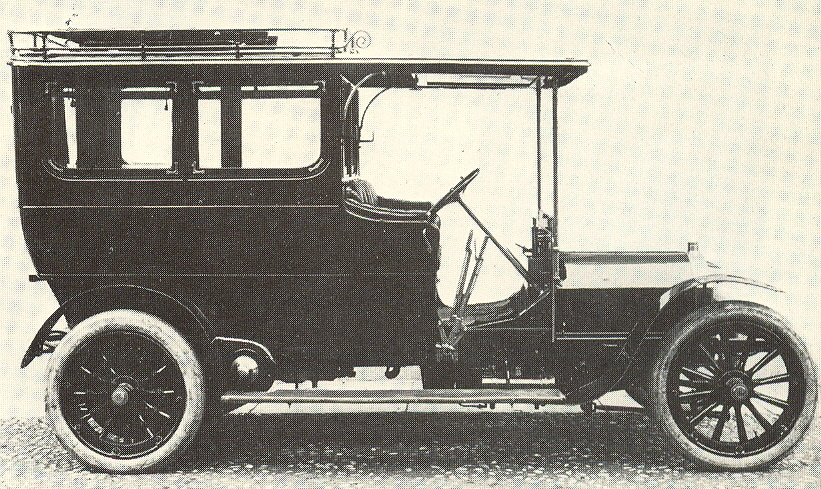 Fiat 16/24 hp Coupe-Sedan (1903)